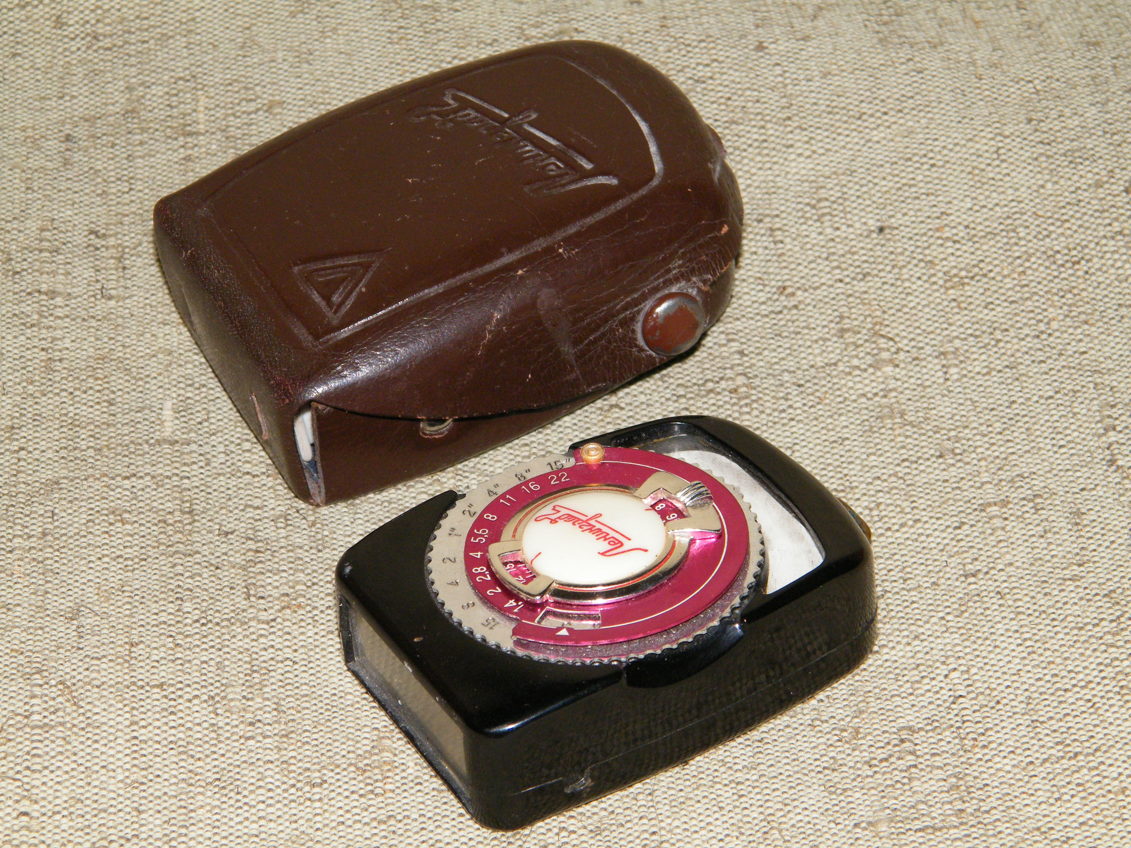 Экспонометр Ленинград-2